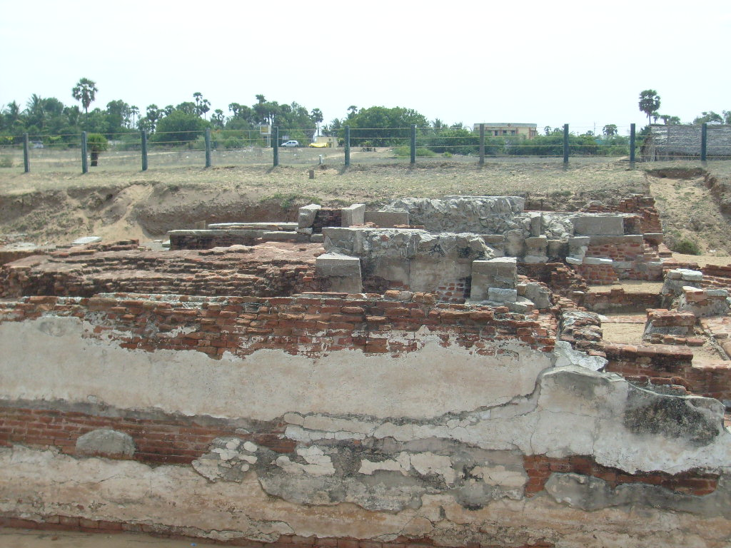 A portion of the brick prakara or compound wall of Subrahmanya Temple, Saluvankuppam